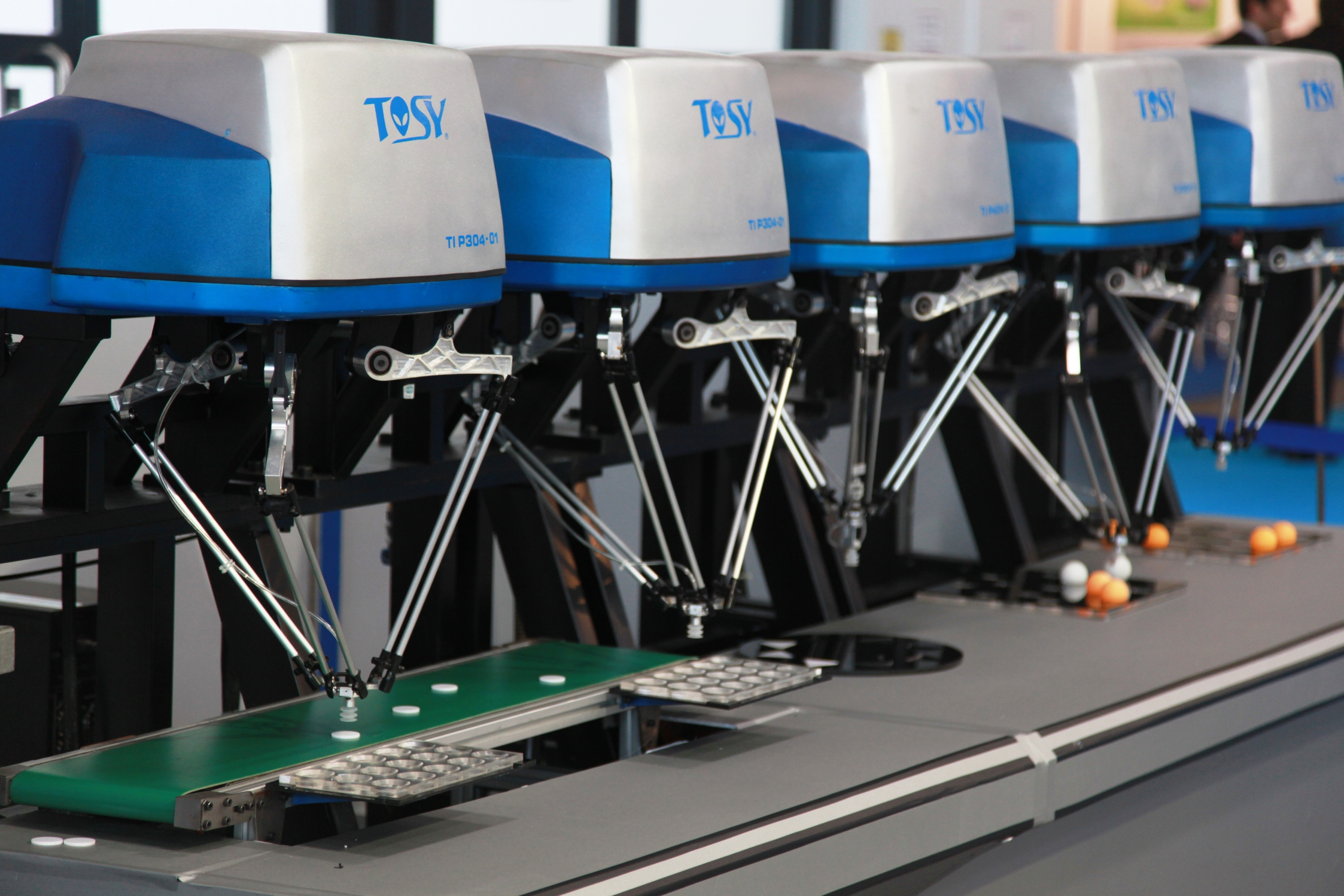 TOSY Industrial Robot at Automatica 2010, Munich, Germany